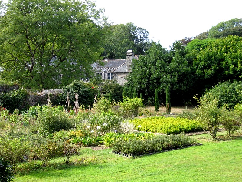 Godolphin House - Penwith - Cornwall - UK